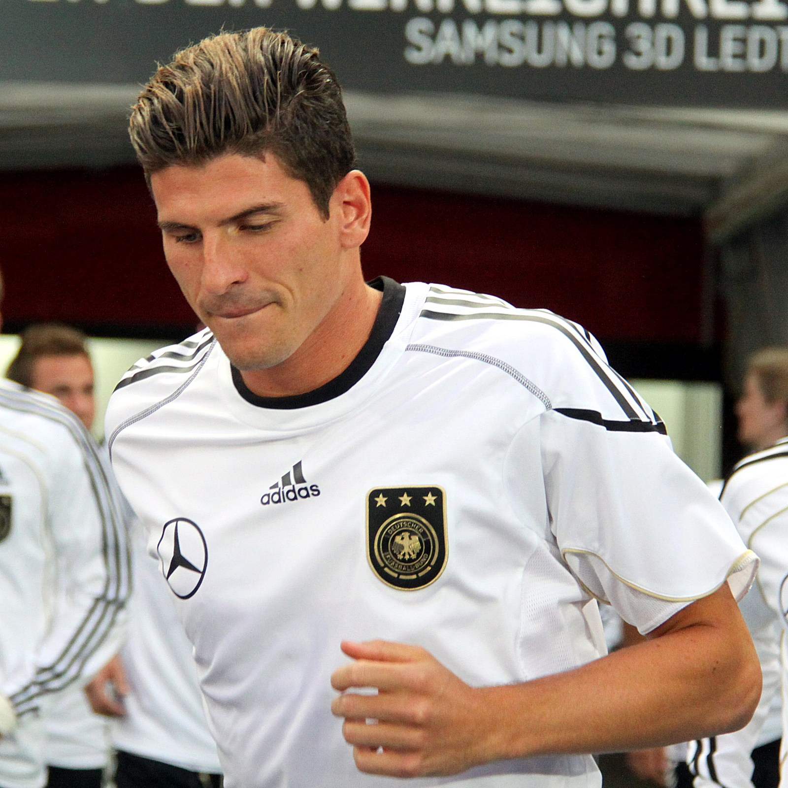 Mario Gómez (FC Bayern Munich), german national football team - OpenStreetMap(Info)